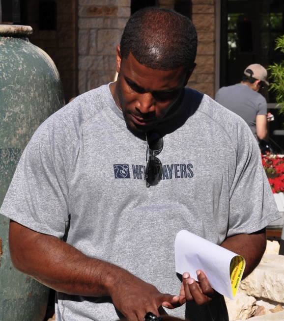 "Former NFL star Priest Holmes stops to talk football with some of the wounded warriors at a barbecue April 8 at the Warrior and Family Support Center at Fort Sam Houston, Texas." →This file has been extracted from another file: Priest Holmes speaks with soldiers.jpg.